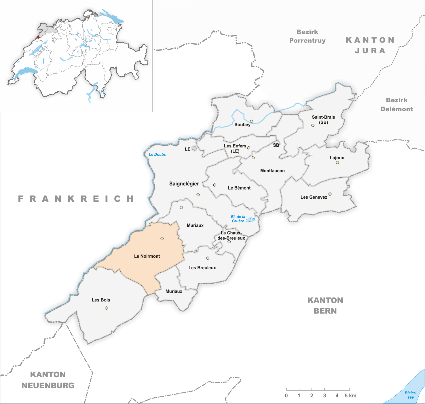 Municipality Le Noirmont